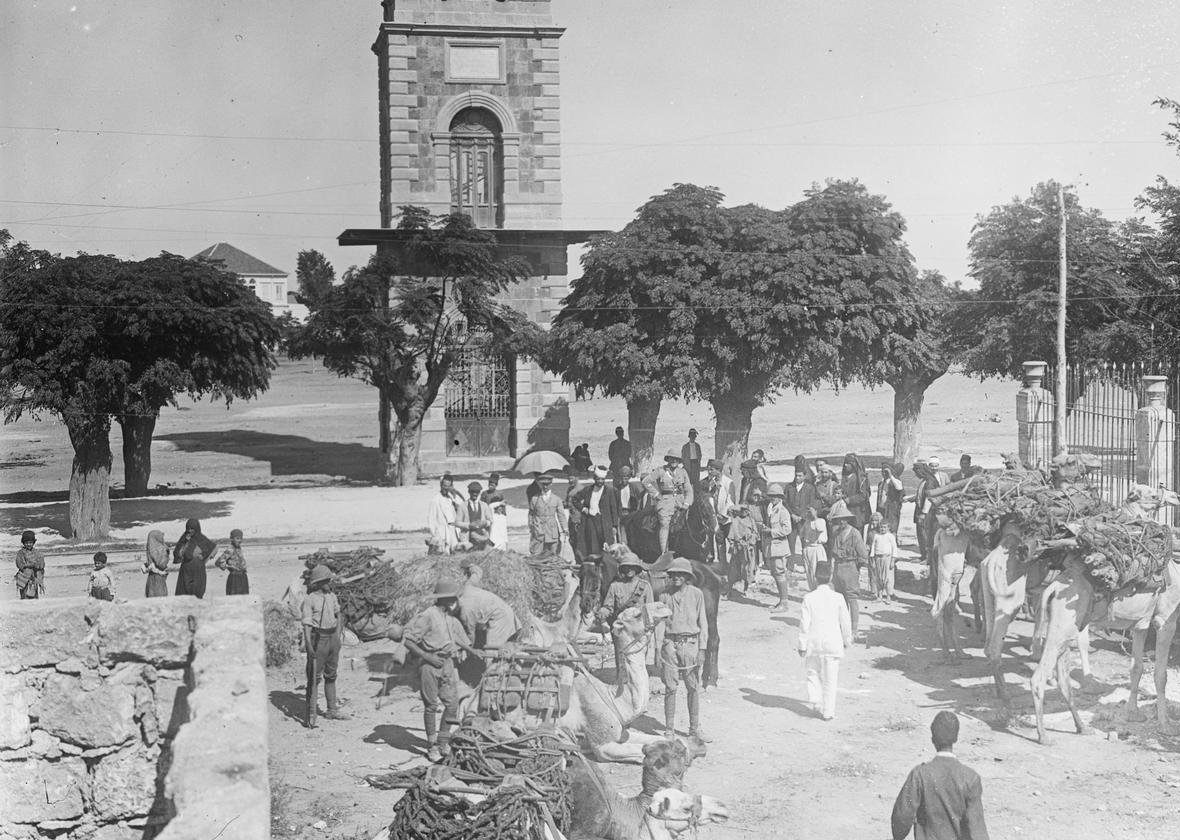 IWM caption : British troops and camels In Tripoli, reached by the armoured cars and XXth Corps Cavalry on 13th October, by the 19th Brigade on the 18th, and the remainder of the 7th Division on the 28th.